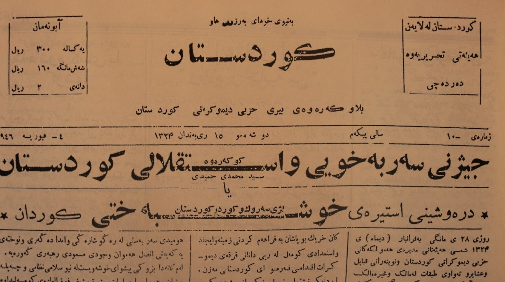 Kurdistan newspaper 04.02.1946 Republic of Kurdistan